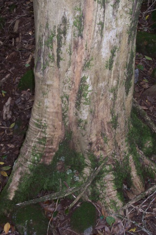 Tristaniopsis_collina at Mount Royal, Barrington Tops National Park